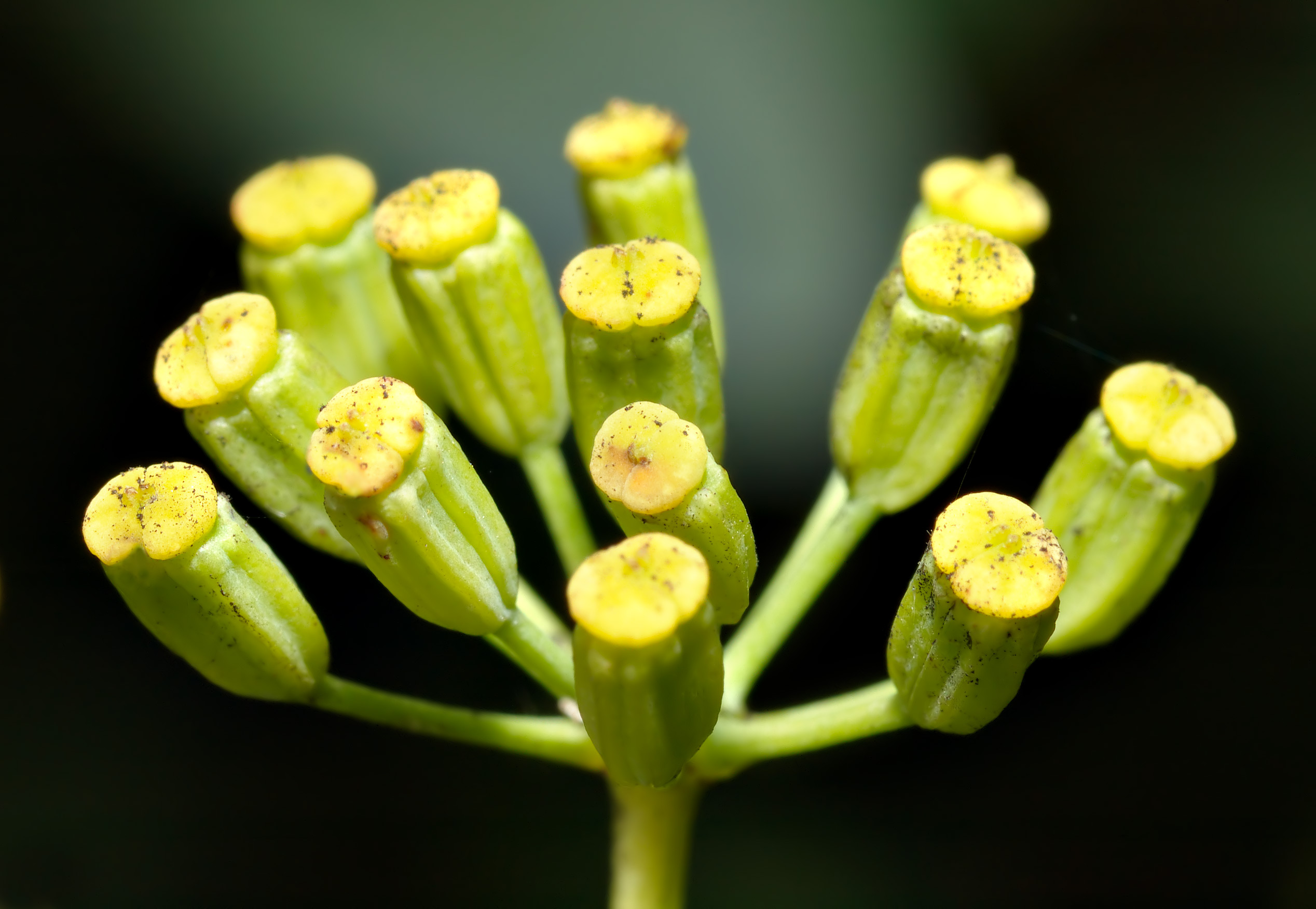 This image shows a Shrubby Hare's ear (Bupleurum fruticosum).